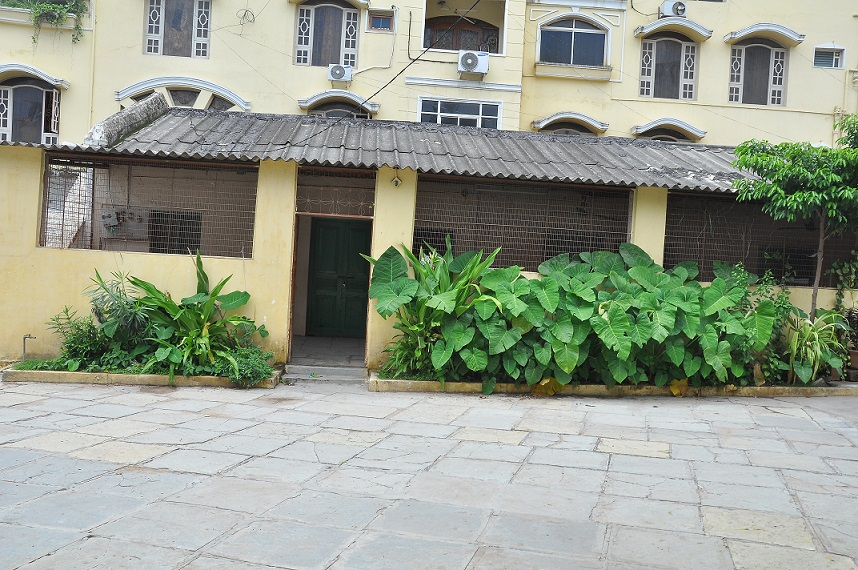 Chuch Parish Hall